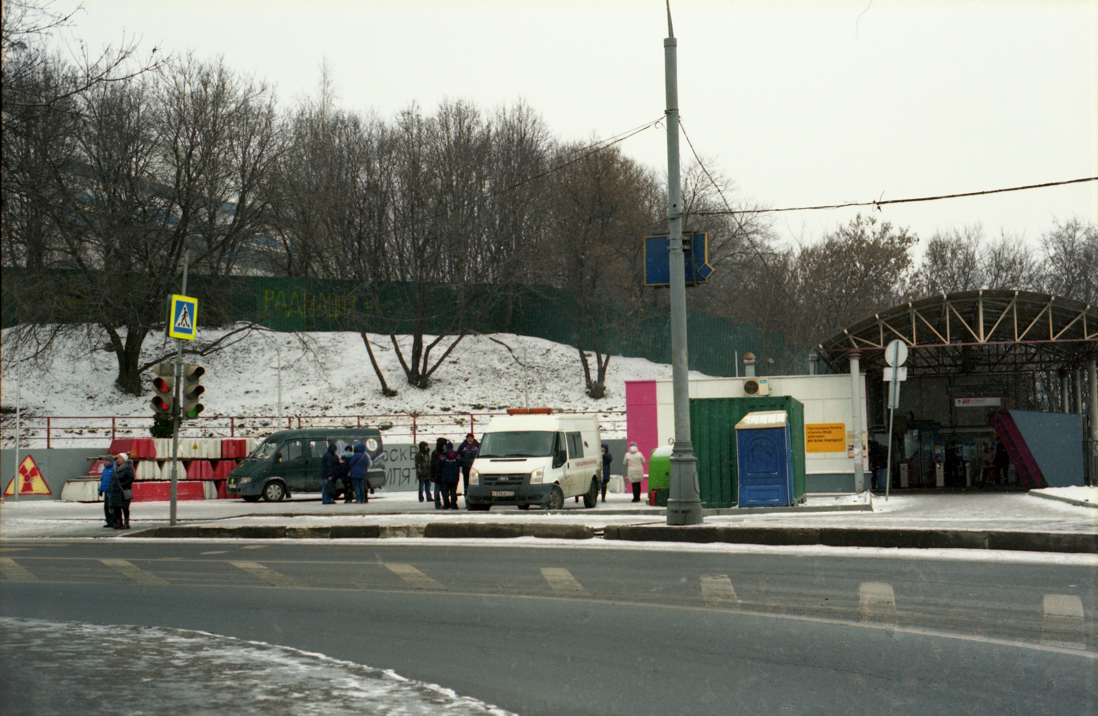 Moscow. Ricoh KR-10X camera, Kodak Ektar100 RZD Moskvorechye station